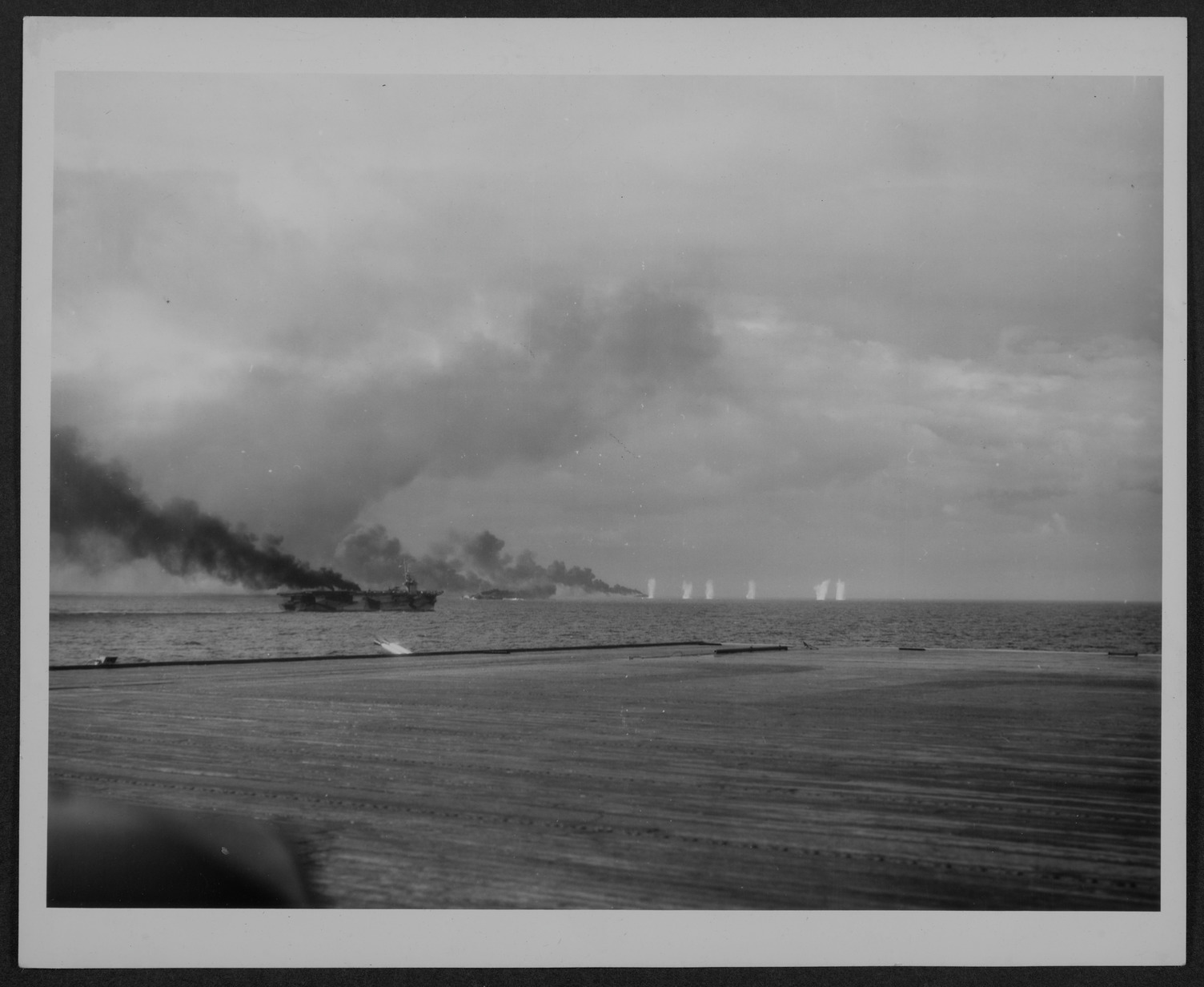 During the Battle off Samar, the U.S. Navy escort carrier USS St. Lo (CVE-63), in the foreground, and companion ships make smoke against Japanese admiral Kurita's force, 25 October 1944. St. Lo was later sunk by a Kamikaze suicide plane. Note the Japanese shells exploding in the distance.